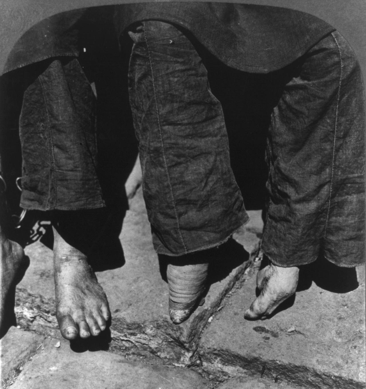 The so-called "Lily feet" (right) contrasted with the natural feet of Chinese women in Canton (now Guangzhou), China.